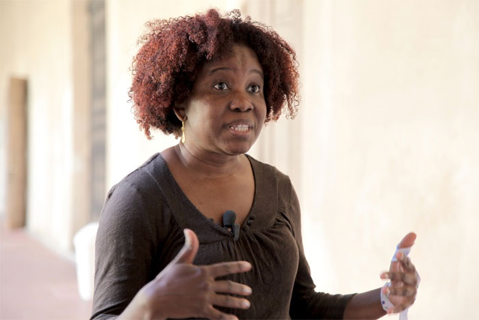 Fatimah Tuggar, Nigerian artist working with digital art and photography, in 2010.